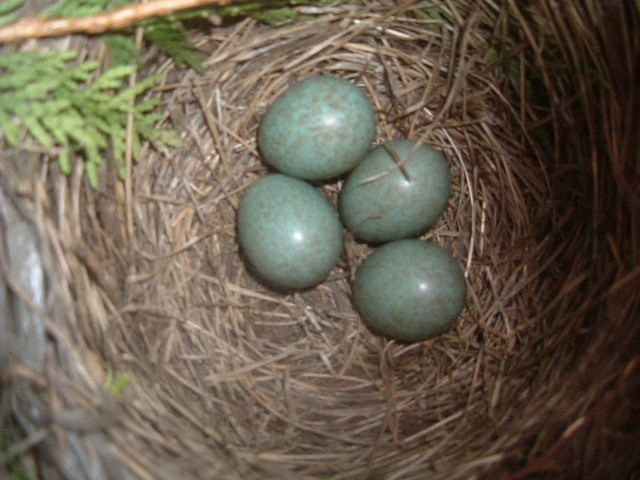 Common Blackbird nest with eggs